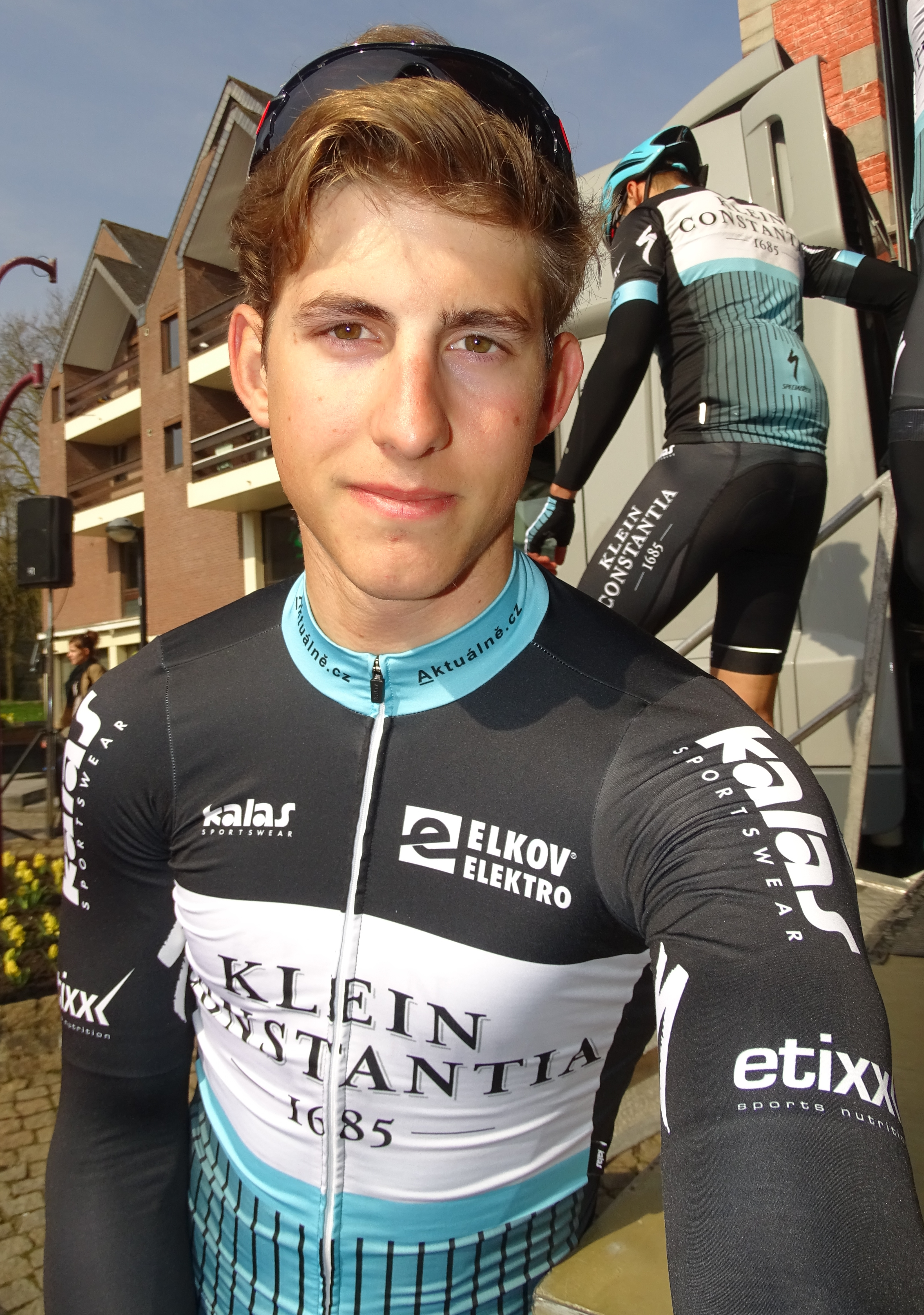 Triptyque des Monts et Châteaux 2016 Depicted person: Depicted team: Klein Constantia